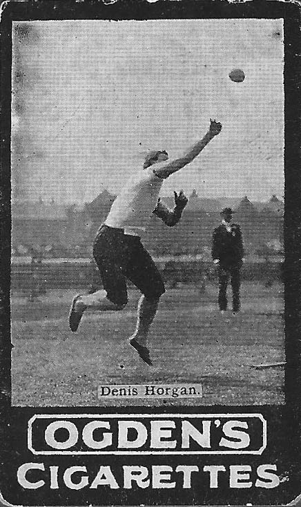 Dennis Horgan, Olympic athlete, on a cigarette card.